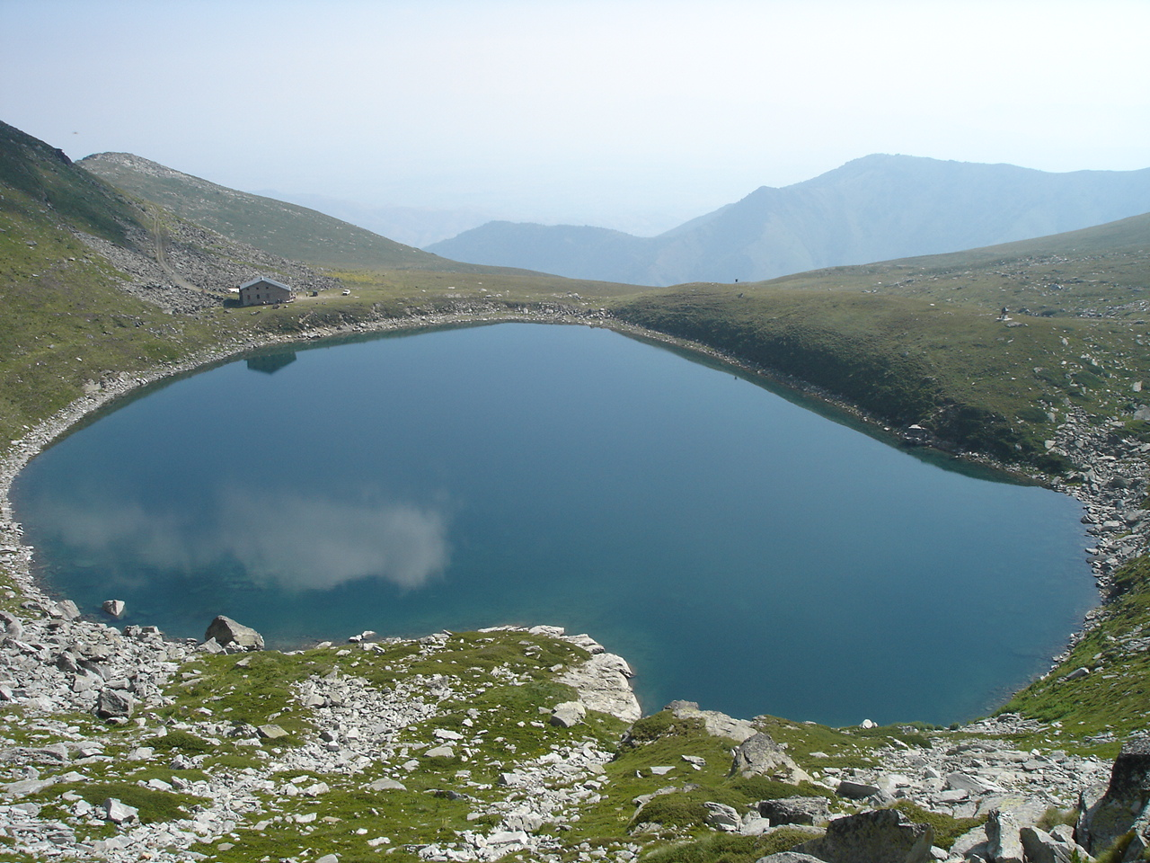 The Great Lake on Pelister, Macedonia